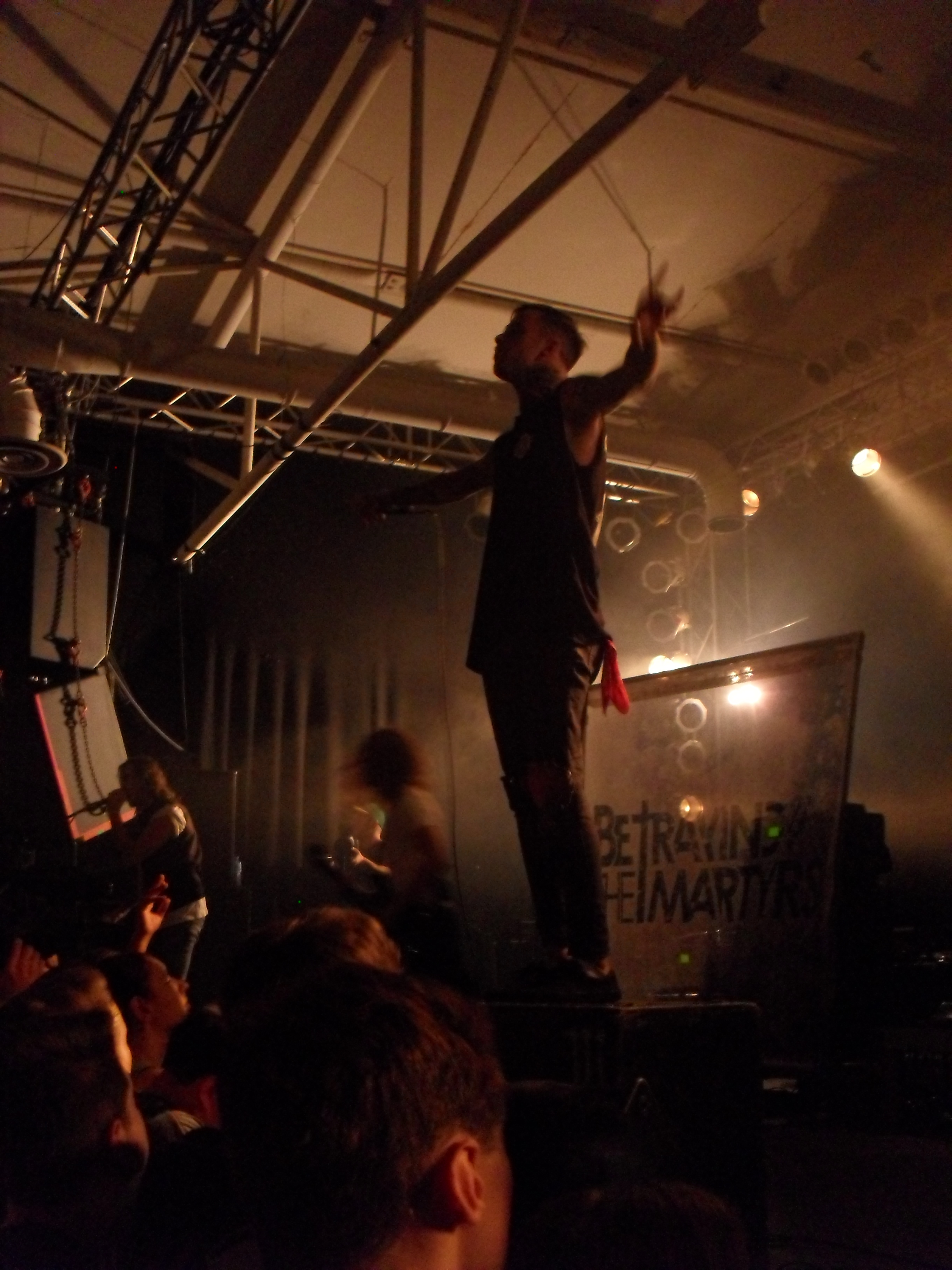 Aaron Matts of Betraying the Martyrs during the Never Say Die! Tour 2013 in Cologne